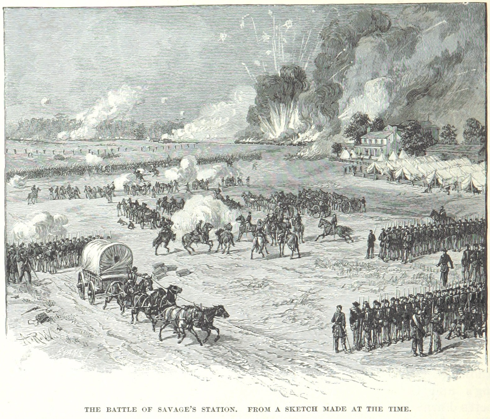 A sketch of the 1862 Battle of Savage's Station.